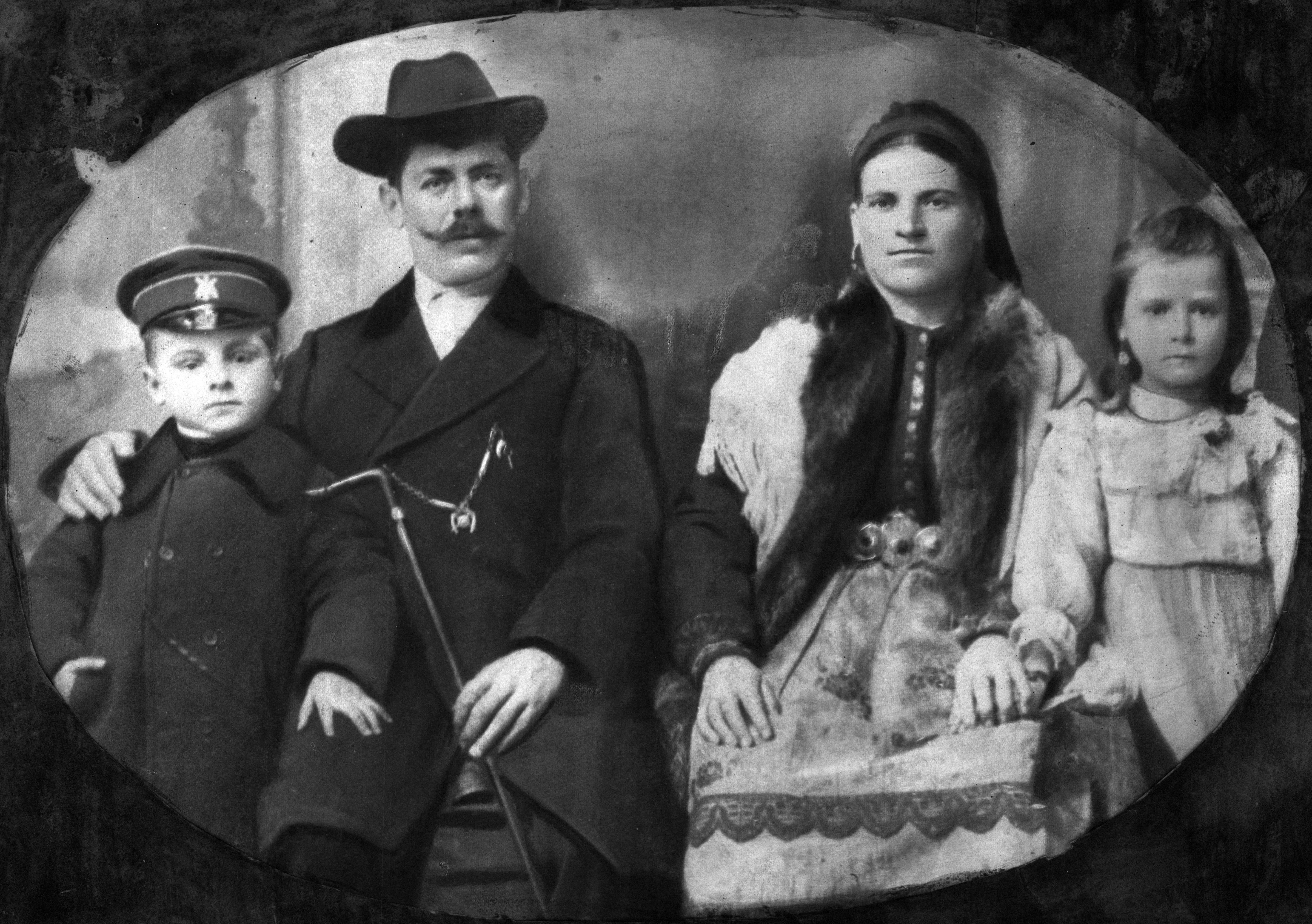 family of bulgarian revolutionary Foti Kirchev